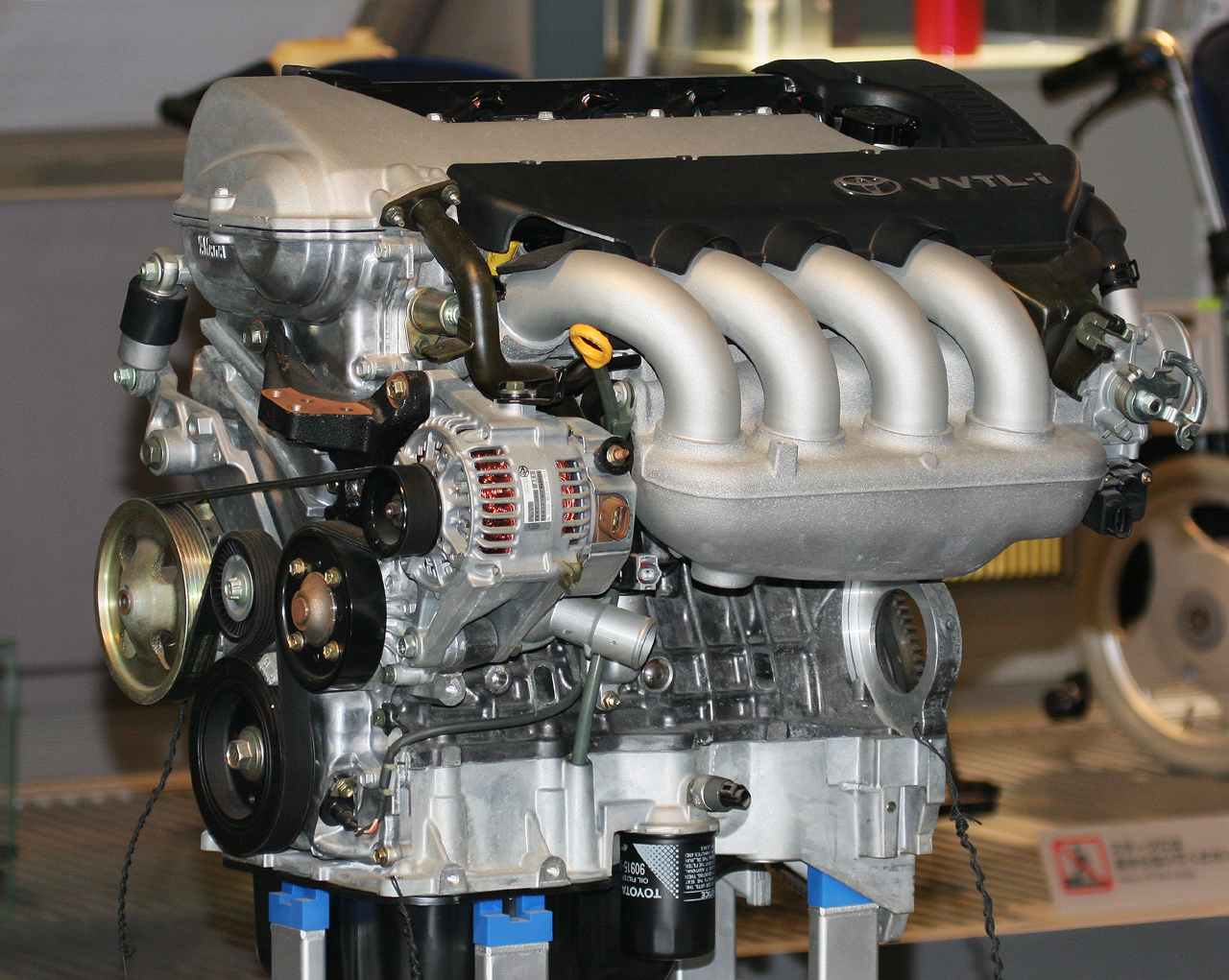 1999 Toyota 2ZZ-GE Type engine. L4 1,796cc.